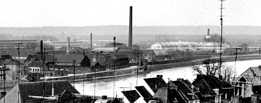 Maastricht, the Netherlands. View from Dinghuis of Meuse river and the Céramique site of N.V. Koninklijke Sphinx in 1970.